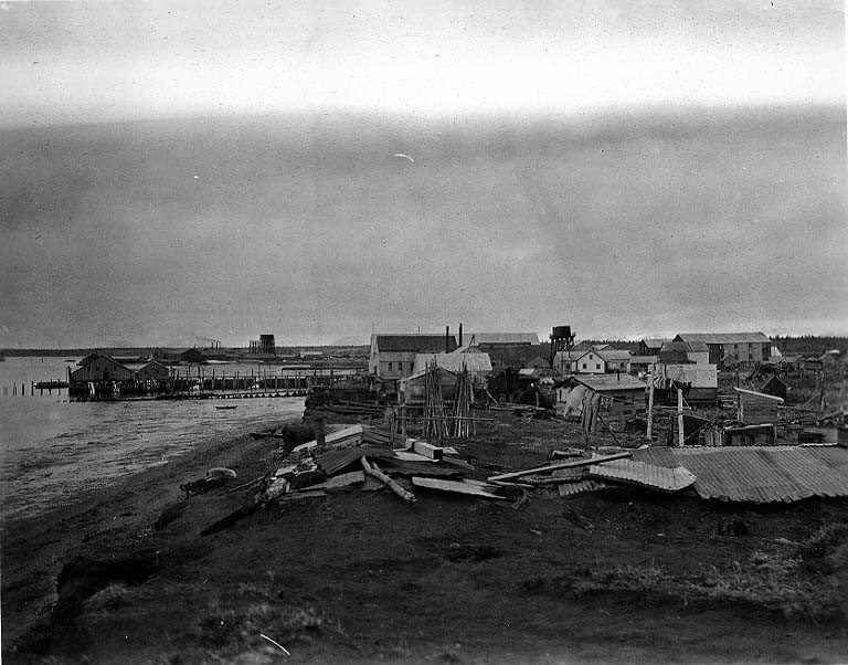 From John Cobb field notebook: Canneries of A.P.P. Ass'n and A.P.A. from Sang Point, Nushagak, Alaska. 1917 . On verso of image: View from Snag Pt., Nushagak, Alaska. Alaska Portland Pack Ass'n in foreground. P.H.J. in background. 1917 Subjects (LCTGM): Canneries--Alaska--Nushagak Subjects (LCSH): Nushagak (Alaska)